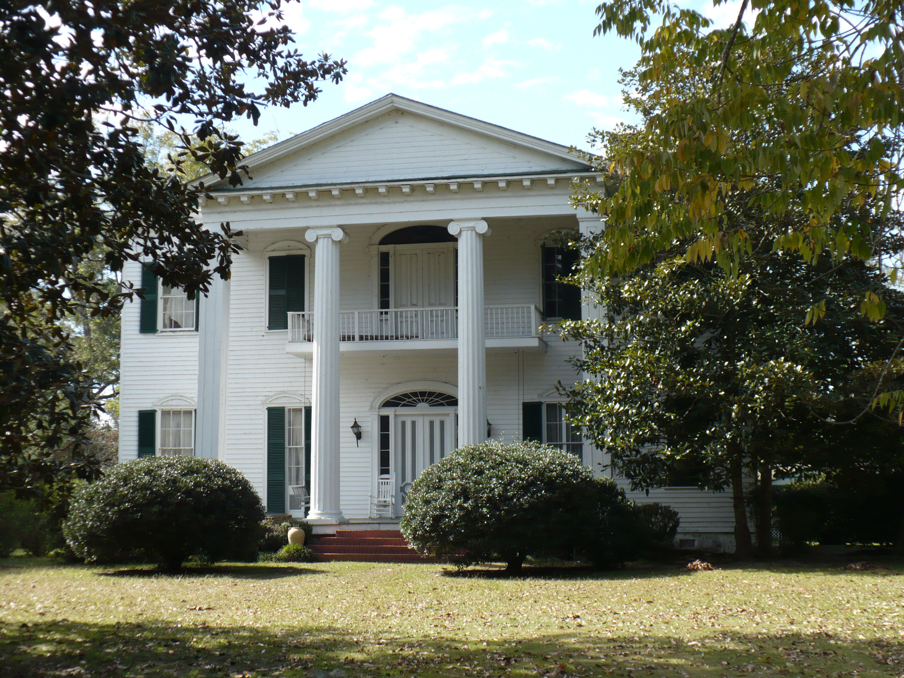 Liberty Hall Plantation near Camden, Wilcox County, Alabama.